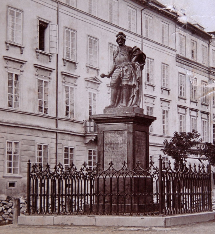 Old picture of Stanisław Jabłonowski monument in Lviv, Ukraine.